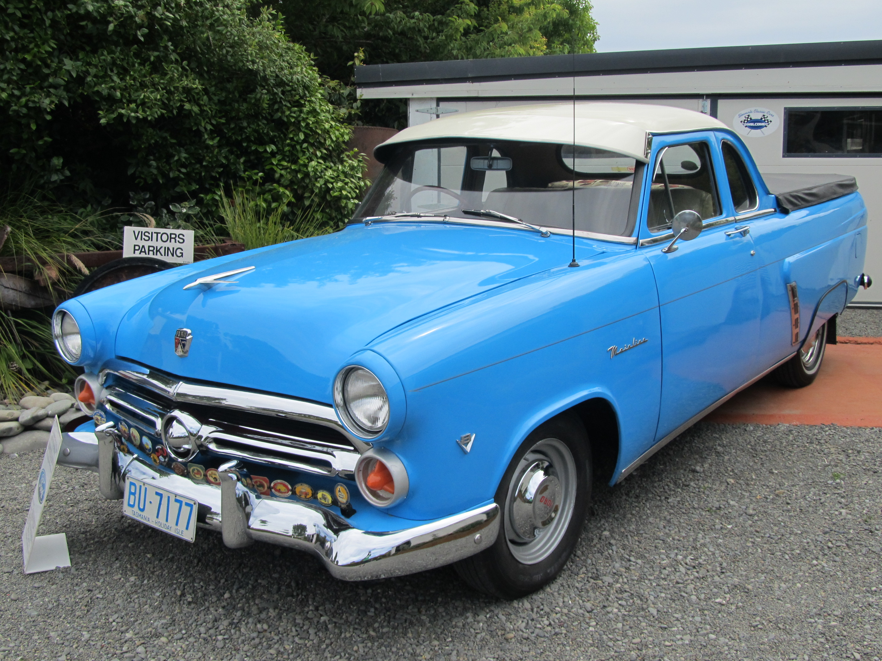 This was immaculate! I've always loved the look of these, ever since seeing two of them for sale in a copy of Auto Trader when I was much younger - back then I assumed they were American, but following a bit of investigating after digging that old copy of AT out, I discovered the Mainline utility was uniquely Australasian. This is apparently visiting from Tasmania, and looks to be utterly and completely original apart from the new tonneau cover on the rear.